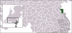 Location of Gennep